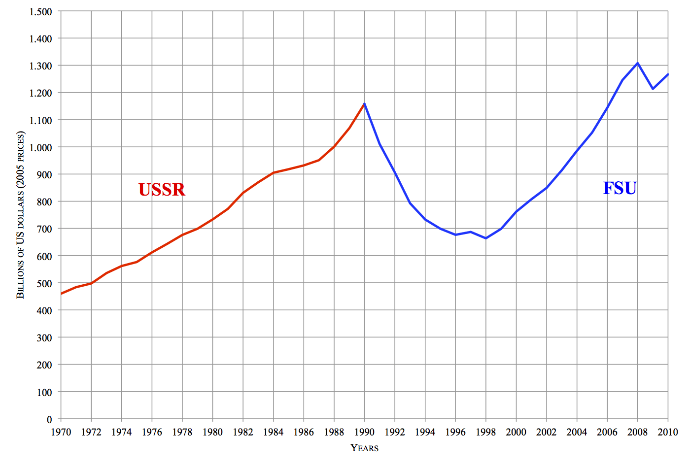 A chart showing GDP for the Soviet Union (USSR) and the Post-Soviet states (FSU) for the years 1970-2010.